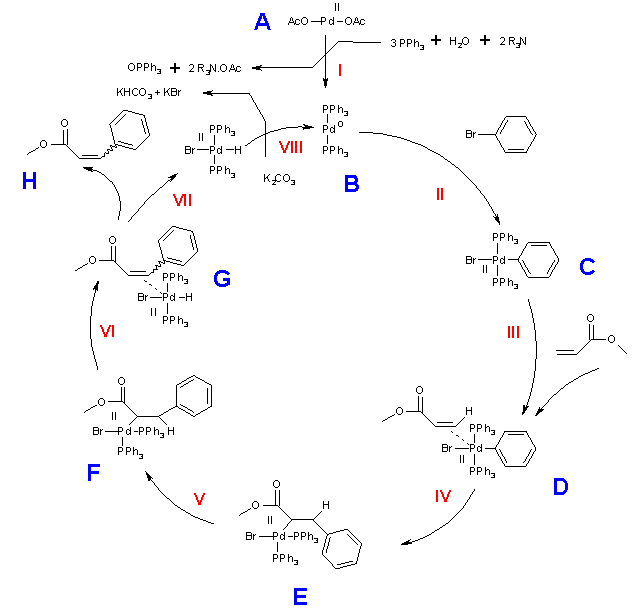 Heck_cycle revised with dangling bond either cis or trans